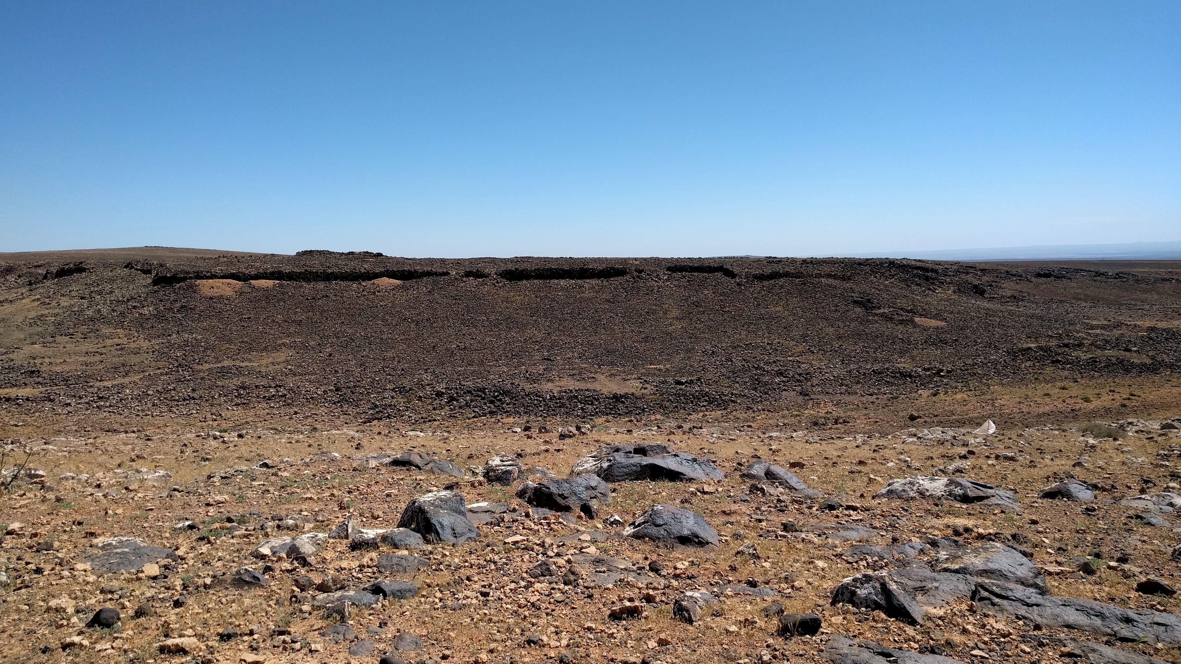 Photograph of the ruins of Jawa, a Bronze Age city in the Black Desert, eastern Jordan.